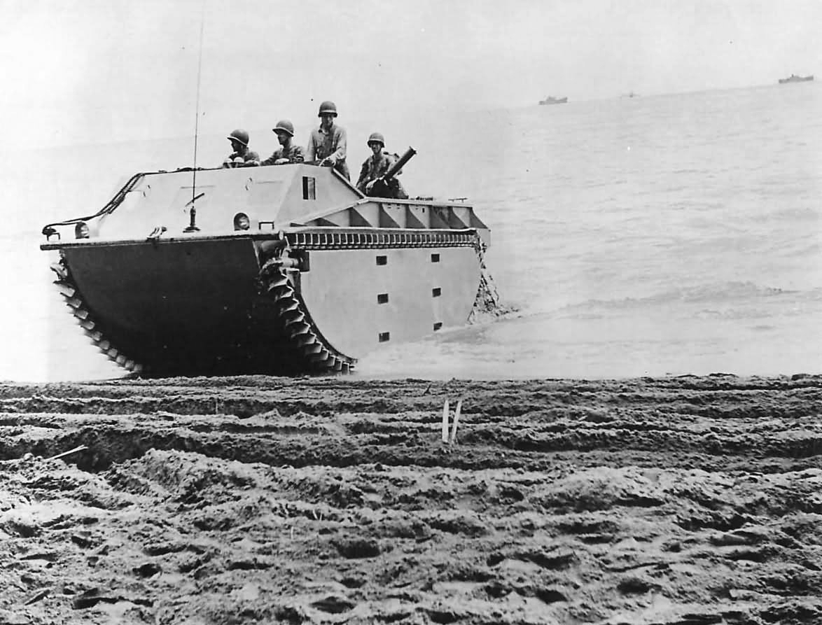 A U.S. Marine Corps LVT(1) amphibian tractor moves up the beach on Guadalcanal Island. This view was probably taken during the 7-9 August 1942 initial landings on Guadalcanal.